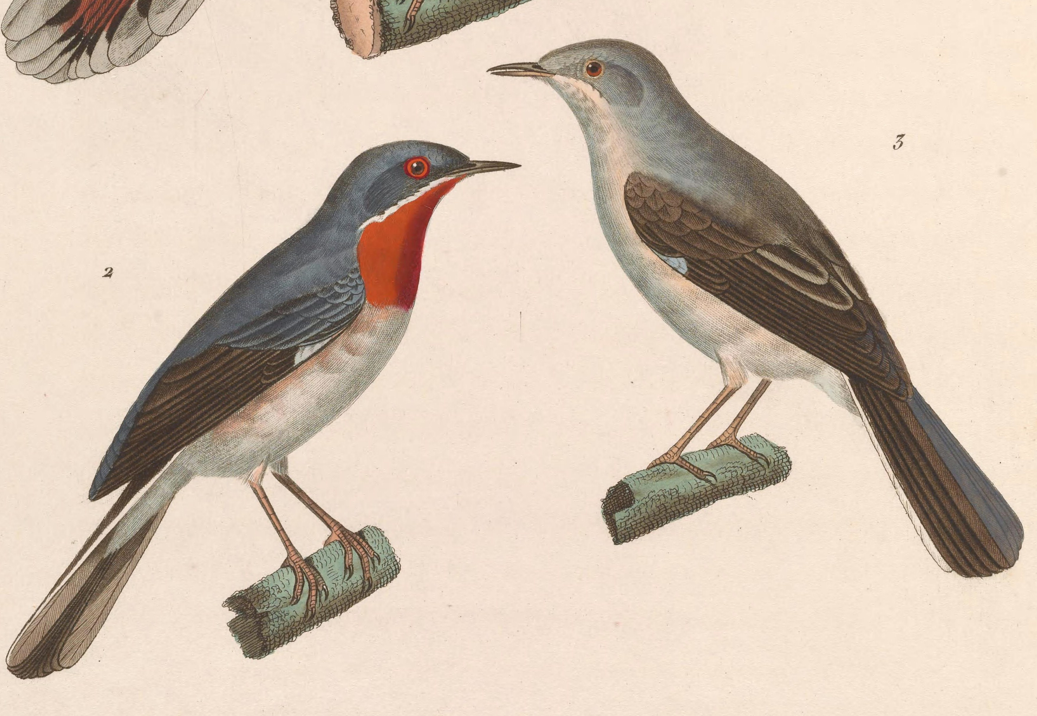 Sylvia subalpina (syn. Sylvia cantillans subalpina) (Moltoni's Warbler) - male and female